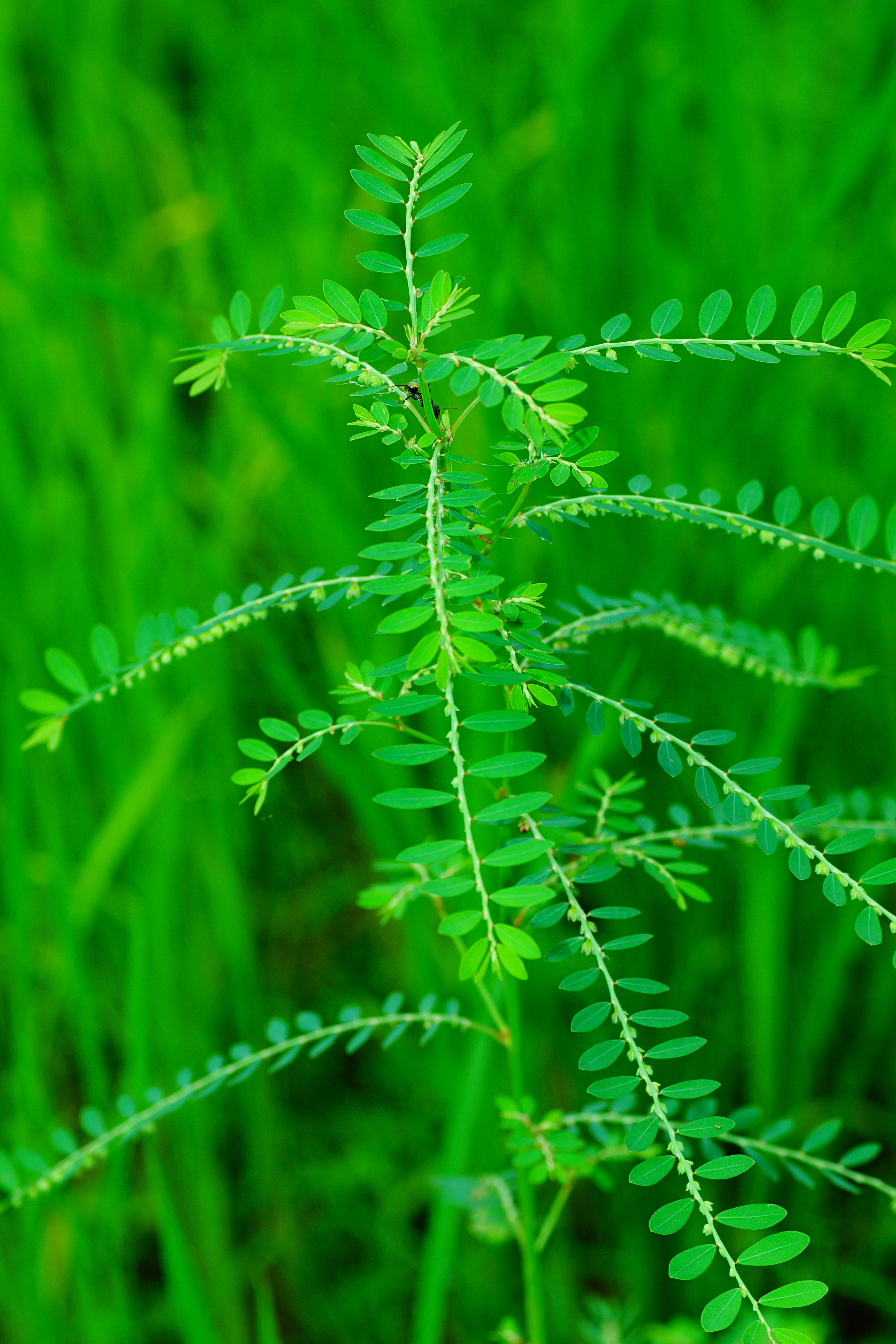 Phyllanthus niruri